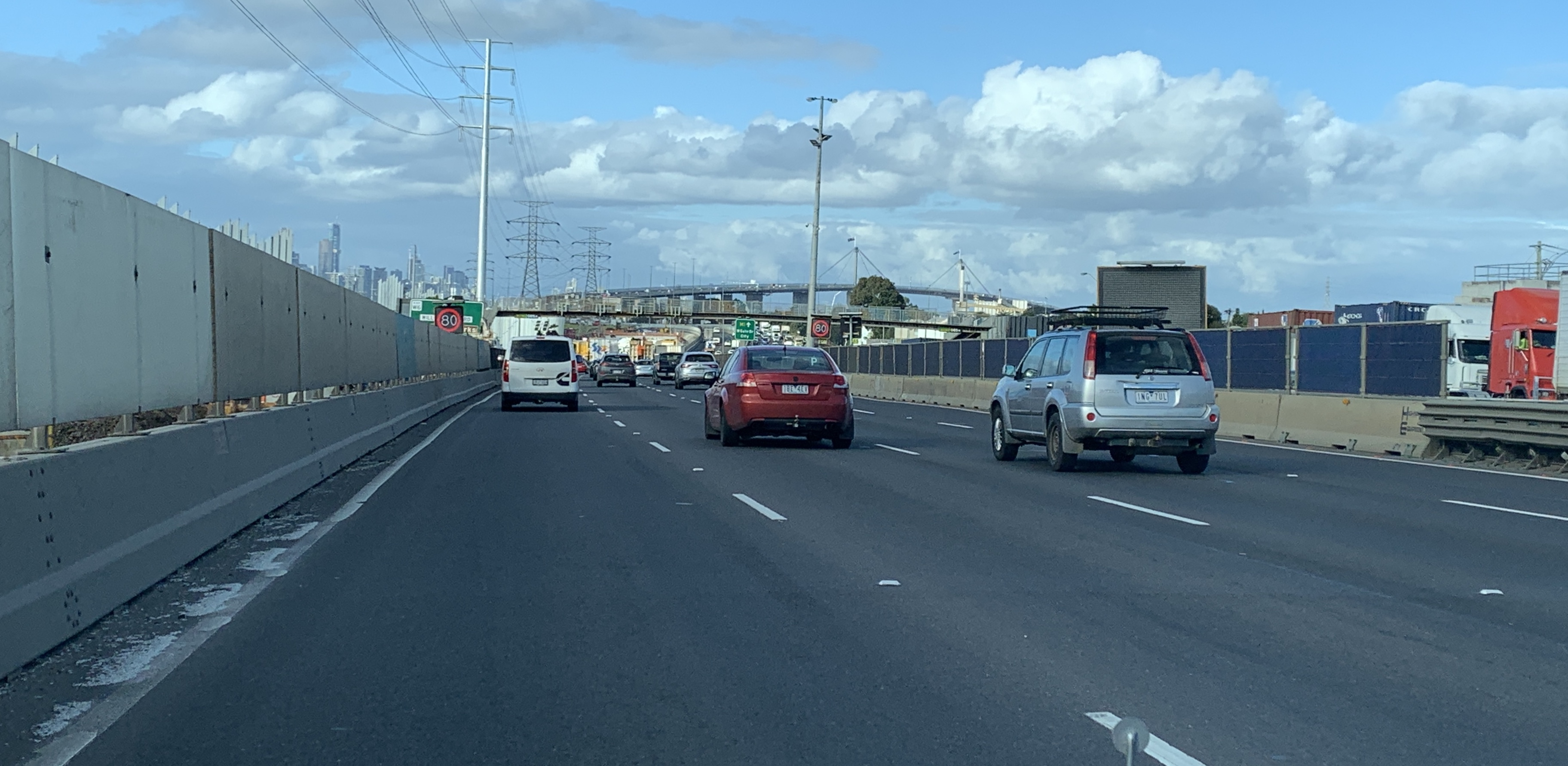 The future location of an entrance to the proposed West Gate Tunnel in Yarraville, Melbourne